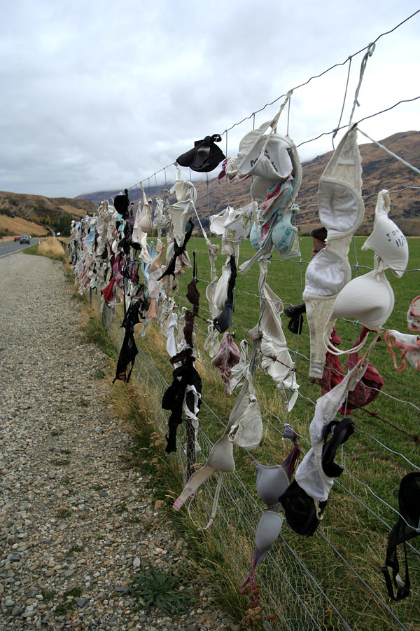 Close-up view of the Cardrona Bra Fence, taken the 24th of March, 2006. Photo by Adam Buczynski.